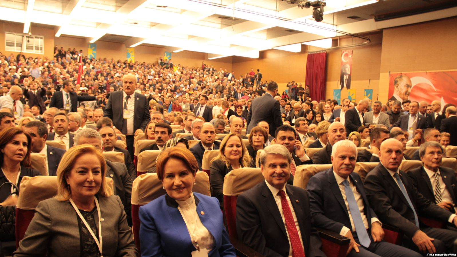 İYİ Party leader Meral Akşener making a speech at her party's first congress